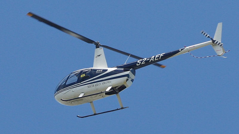 This is a Robinson R44 II , serial S2-AEF. It belongs to South Asian Airlines, a Bangladeshi Private Helicopter charter company